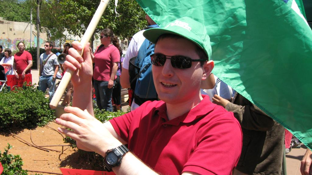 Ilai Harsgor Hendin, May 2009